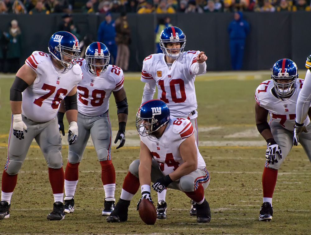 New York Giants vs. Green Bay Packers in the NFC Divisional Playoff Game at Lambeau Field on January 15, 2012. Photo by Mike Morbeck.